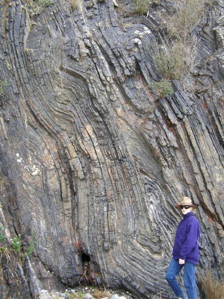 Folded rock